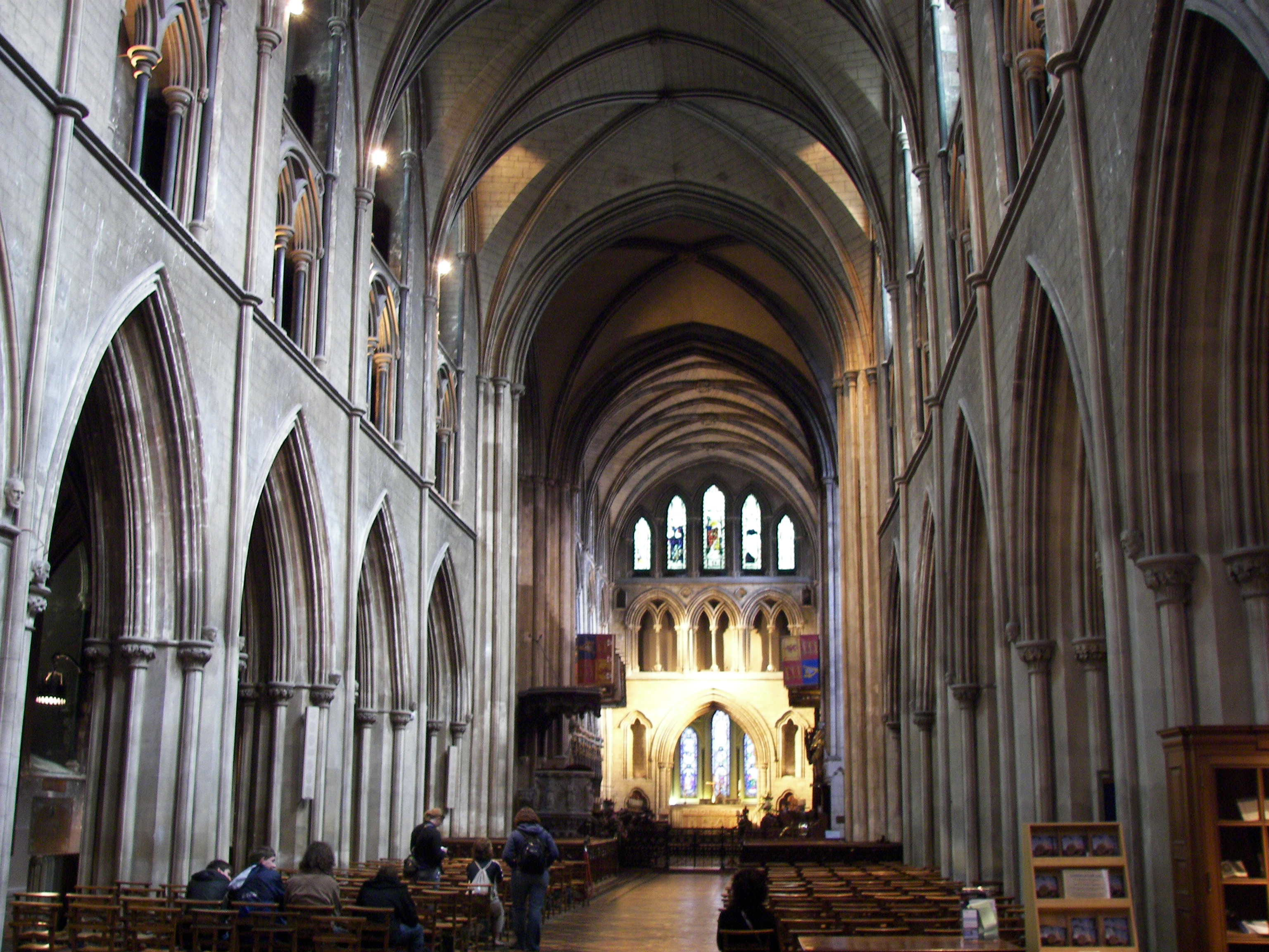 Interior of St. Patrick's Cathedral, Dublin.